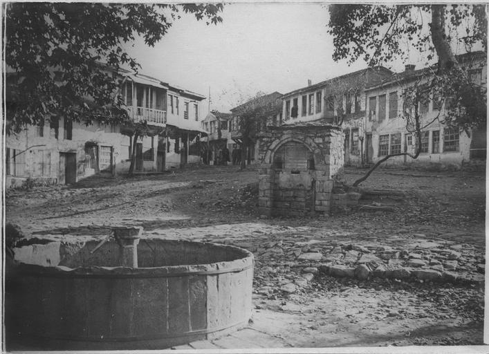 Antante in Lyapusha, today Neapoli, Greece in 1917-1918